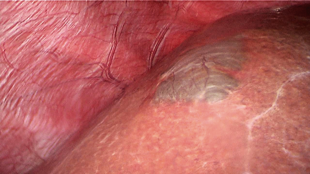 Cyst of the liver